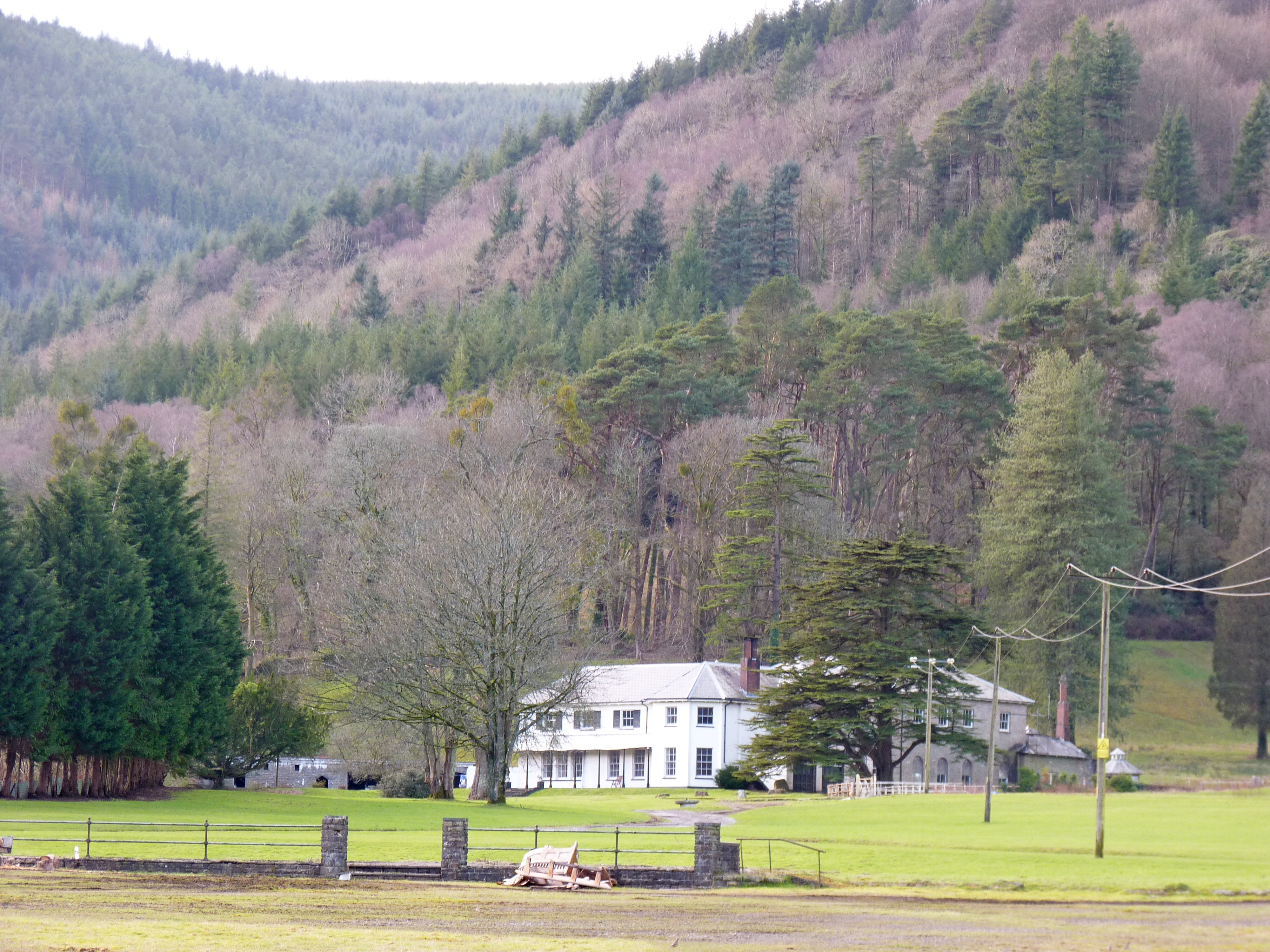 Rheola House, in the Neath valley, South Wales, with wooded hillside beyond.